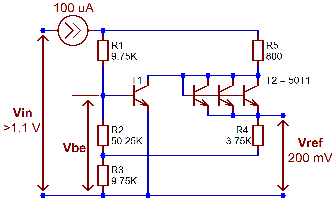 The 1976-1977 subbandgap of Bob Widlar's LM100.